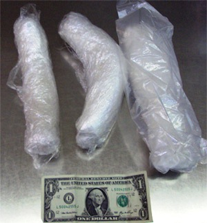 1 lb (454 g) of methamphetamine found on a passenger at Los Angeles International Airport (LAX)